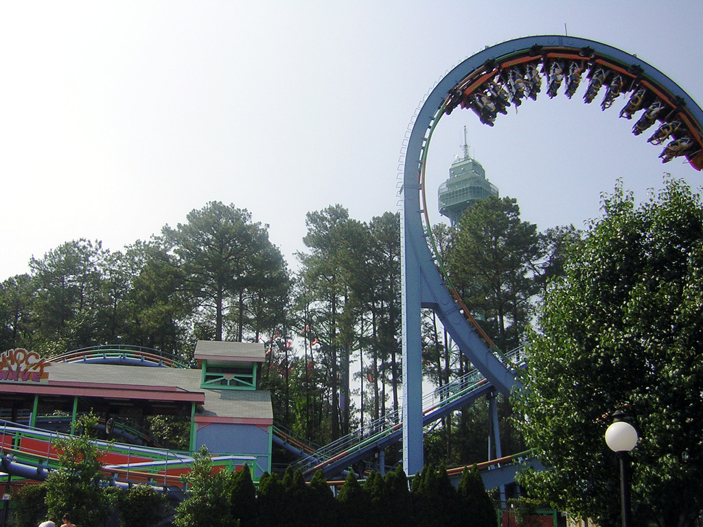 Shockwave roller coaster at Paramount's Kings Dominion.